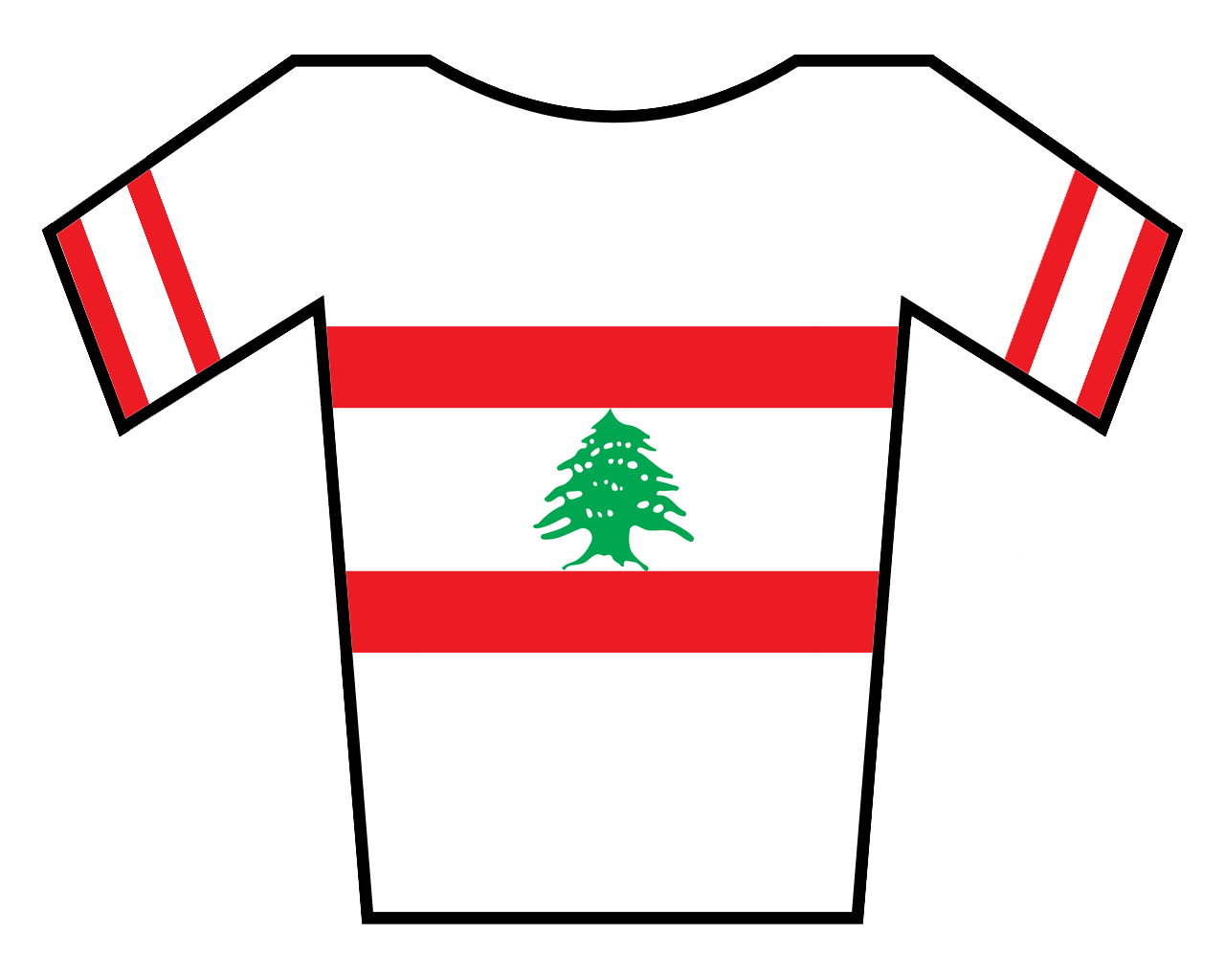 National champion cycling jersey of Lebanon